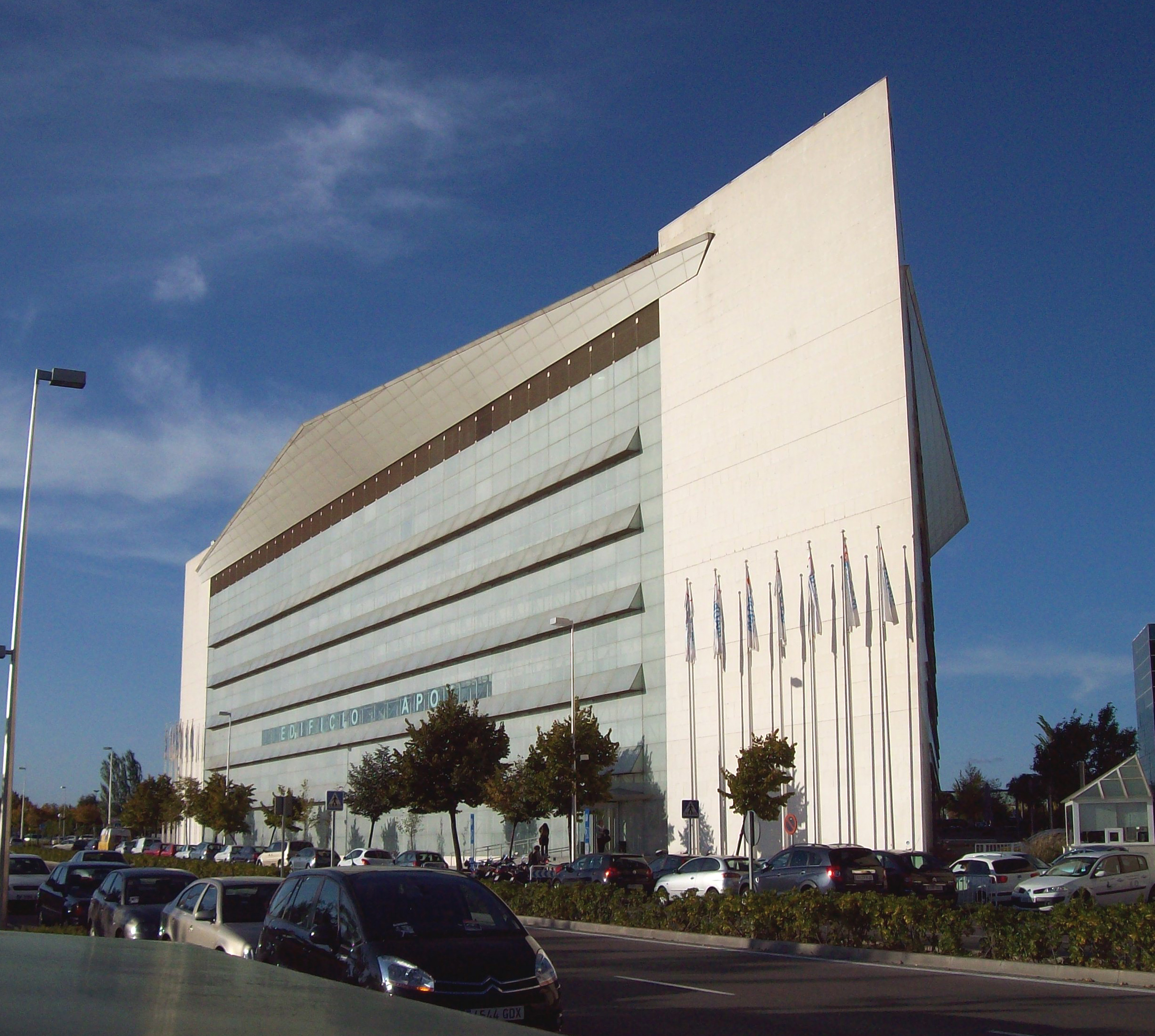 Façade of Apot Building in Madrid (Spain). Designed by Ricardo Bofill and built in the 1990's.